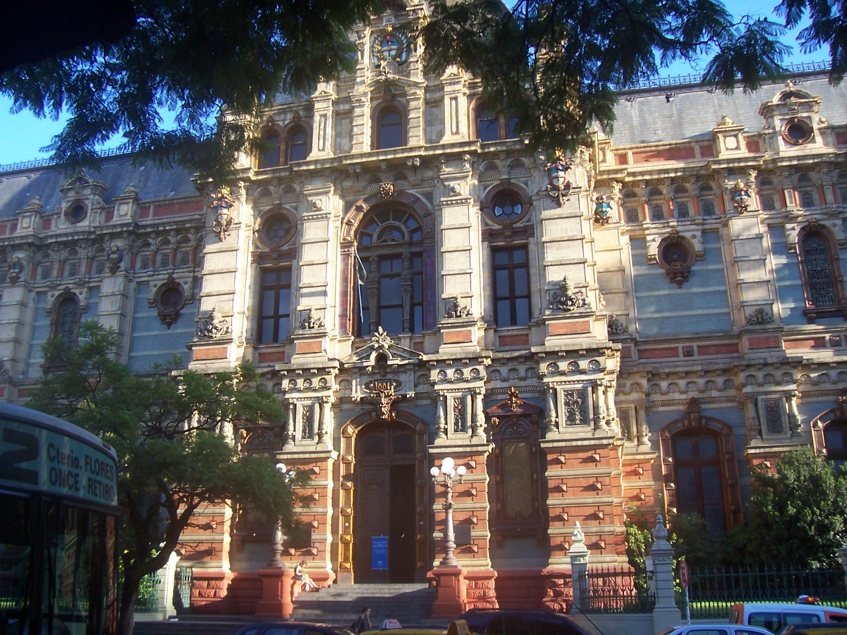 Palacio de las Aguas (Water Palace). The current building belongs to Aguas Argentinas (former Obras Sanitarias de la Nación), in the Córdoba avenue, between Ayacucho and Riobamba, in the Balvanera district of Buenos Aires, Argentina.